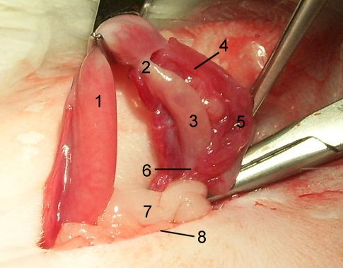 spaying of a female cat. 1 uterus, 2 Ligamentum ovarii proprium, 3 ovary, 4 uterine tube, 5 mesosalpinx, 6 Ligamentum suspensorium ovarii, 7 abdominal fat, 8 incision wound de: Kastration einer weiblichen Katze: 1 Gebärmutterhorn, 2 Ligamentum ovarii proprium, 3 Eierstock, 4 Eileiter, 5 Mesosalpinx, 6 Ligamentum suspensorium ovarii, 7 Bauchfett, 8 Operationswunde